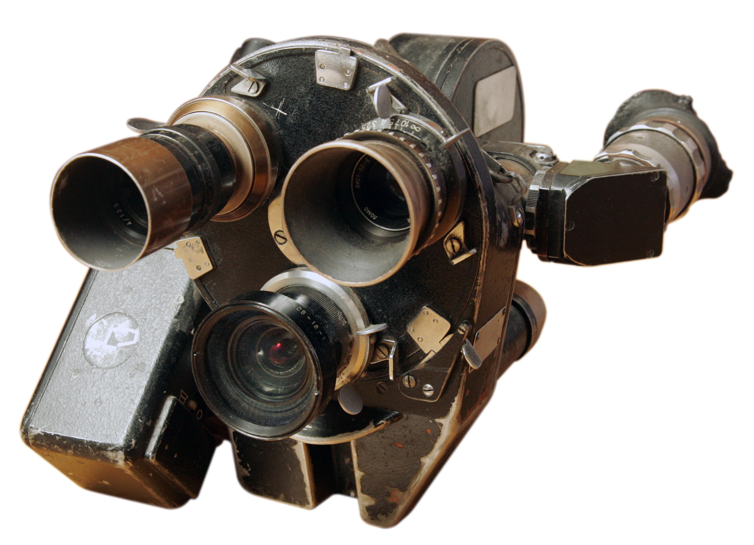 Soviet 35-mm motion picture camera Konvas-automat 1KSR-1M with 17EP-16APK drive and 60meters cassette.